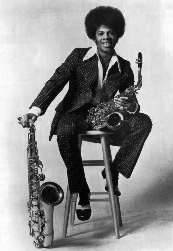 Publicity photo of musician Jimmy Castor.